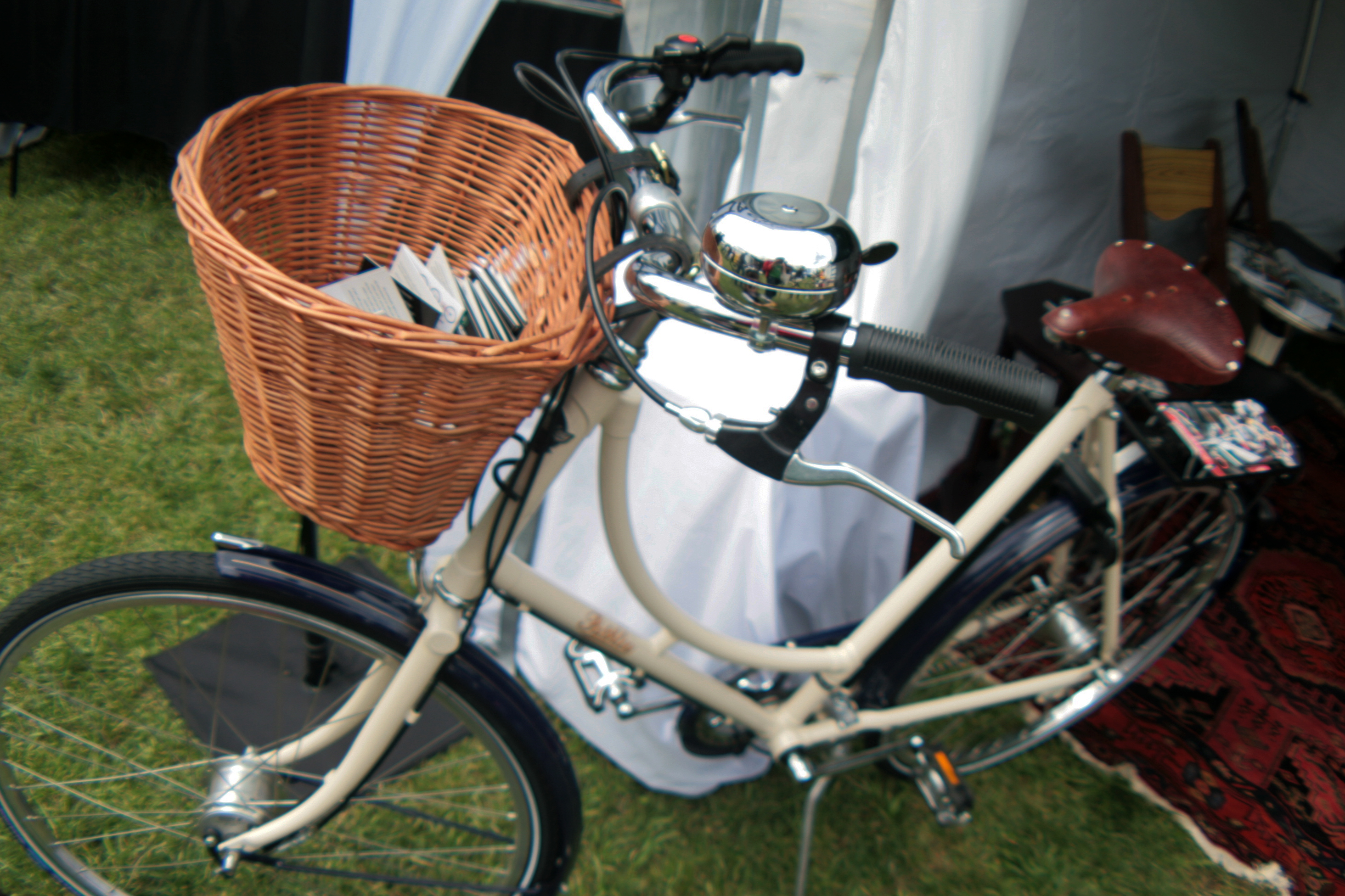 Pashley wicker basket, bell and leather saddle